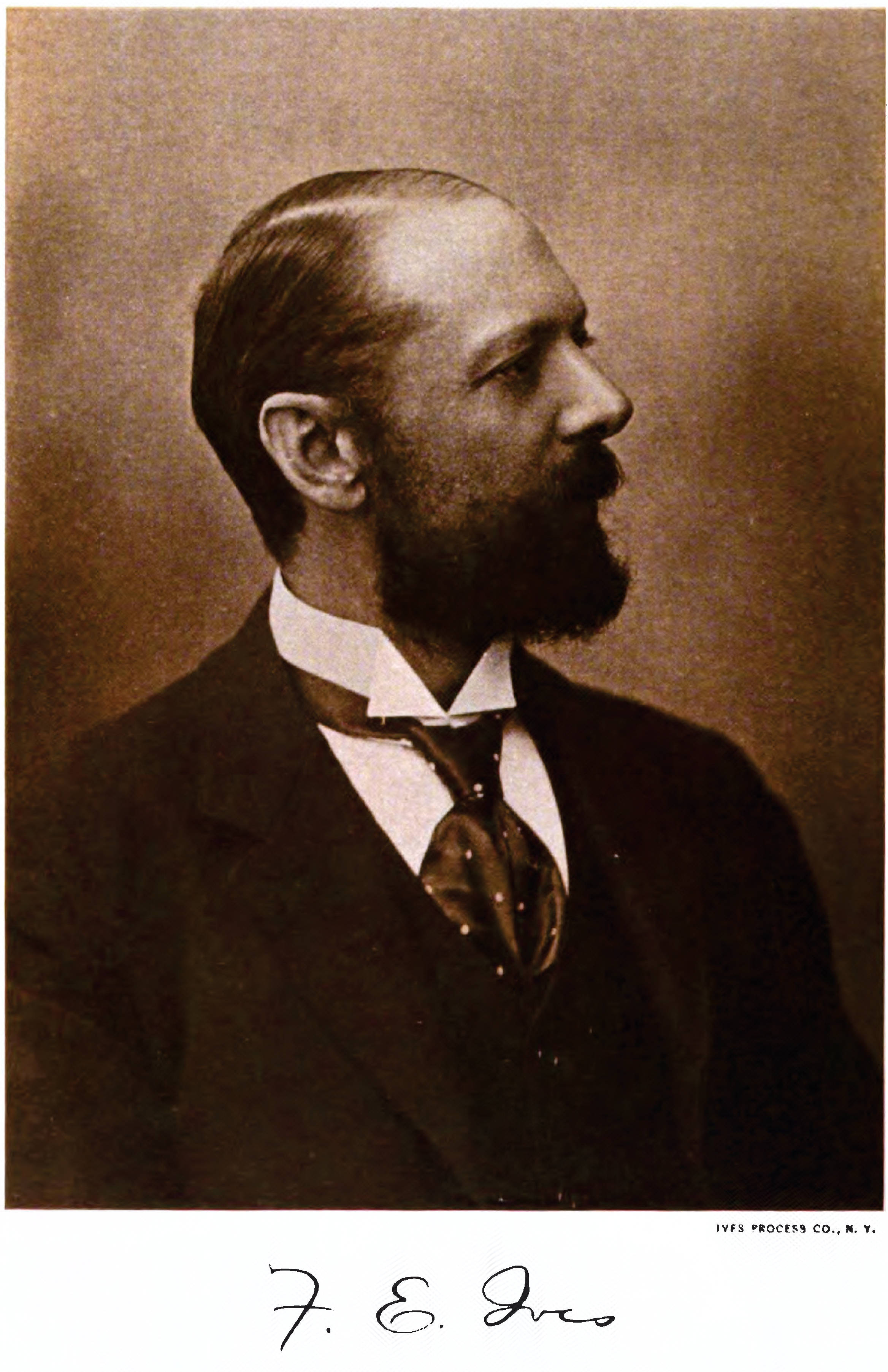 Frederic Eugene Ives